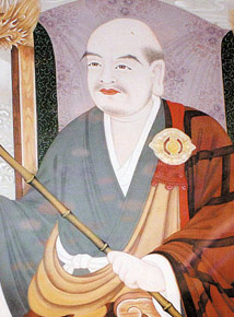 Old portrait of seon master Myeongjeong Doui (VIII/IX c)